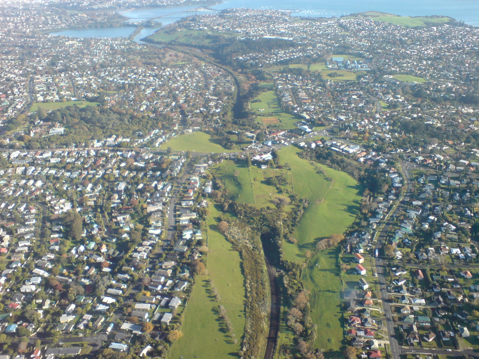 The North Island Main Trunk Railway, in the area of the Eastern Transport Corridor seen looking westwards towards the Auckland CBD, New Zealand.